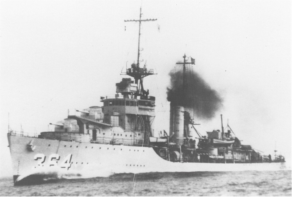 Destroyer USS Mahan